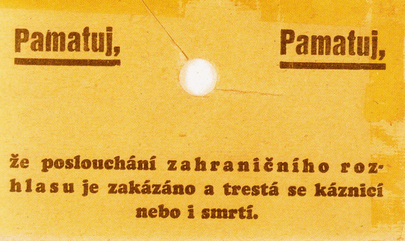 Each radio receiver for the German occupation had to be accompanied by a warning that listening to foreign radio broadcasts to the death penalty